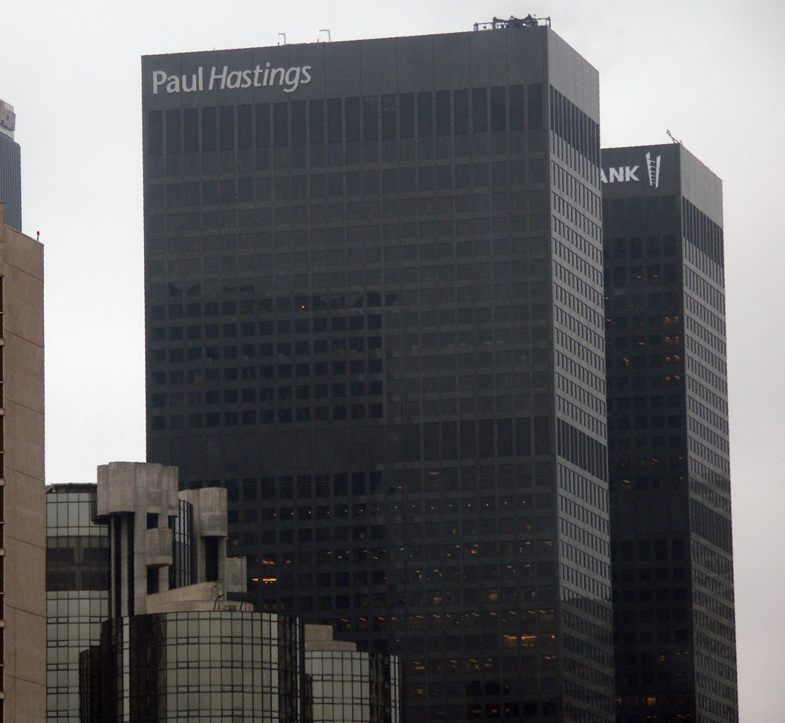 The Paul Hastings Tower in Los Angeles. This skyscraper is home to the large law firm Paul LLP.